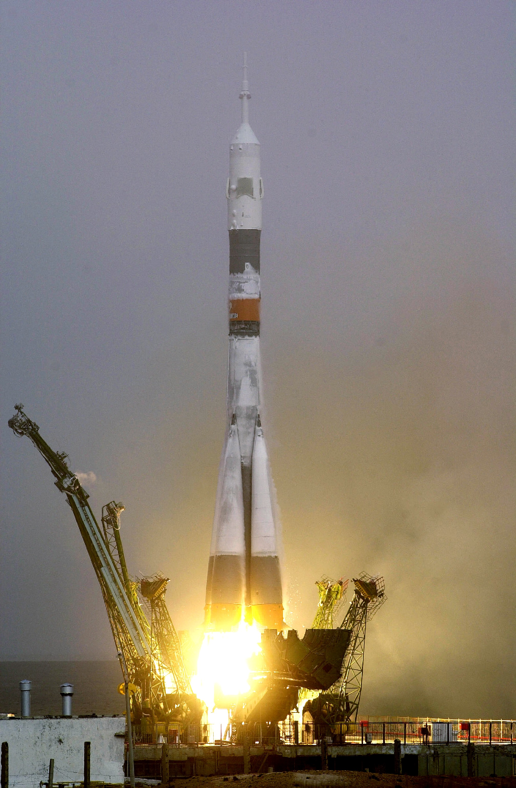 A Soyuz spacecraft lifts off from the Baikonur Cosmodrome at 10:53 a.m. Kazakhstan time. Onboard were Expedition One commander William M. (Bill) Shepherd, Soyuz commander Yuri P. Gidzenko and Sergei K. Krikalev, flight engineer.